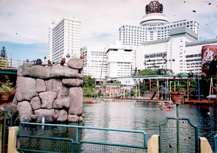 Genting Highlands Hotel